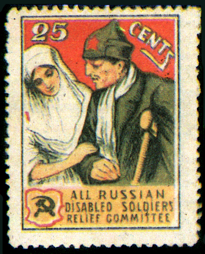 Revenue stamp of voluntary gathering of the All-Russia committee of the help to invalids of war, "american stamp", 1922